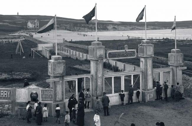 "Campos de Sport de El Sardinero" stadium (Santander, Cantabria), beginning of the 20th Century. Author unknown, picture from the Josep Thomas i Bigas (died 1910) collection.